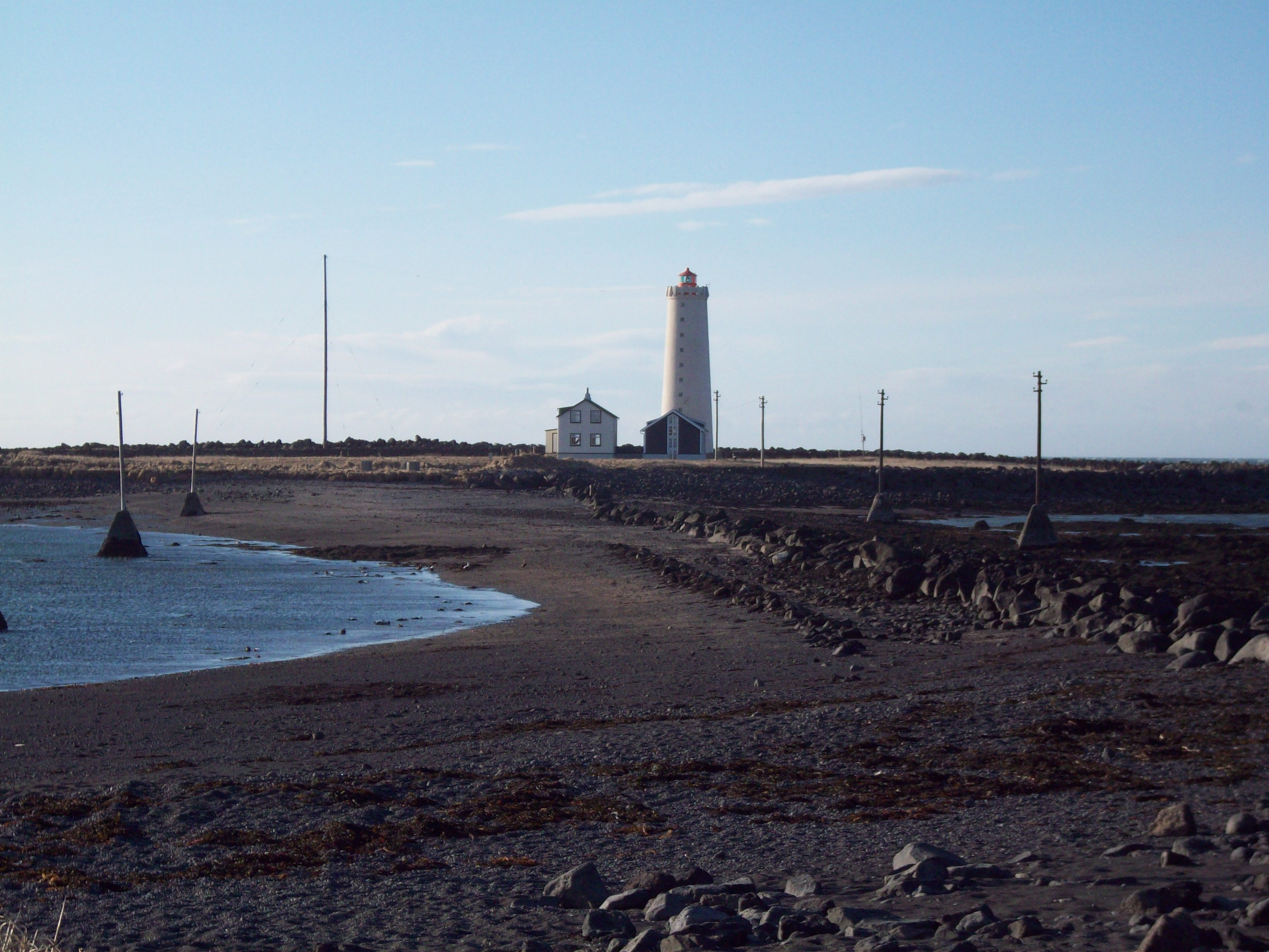 Grótta